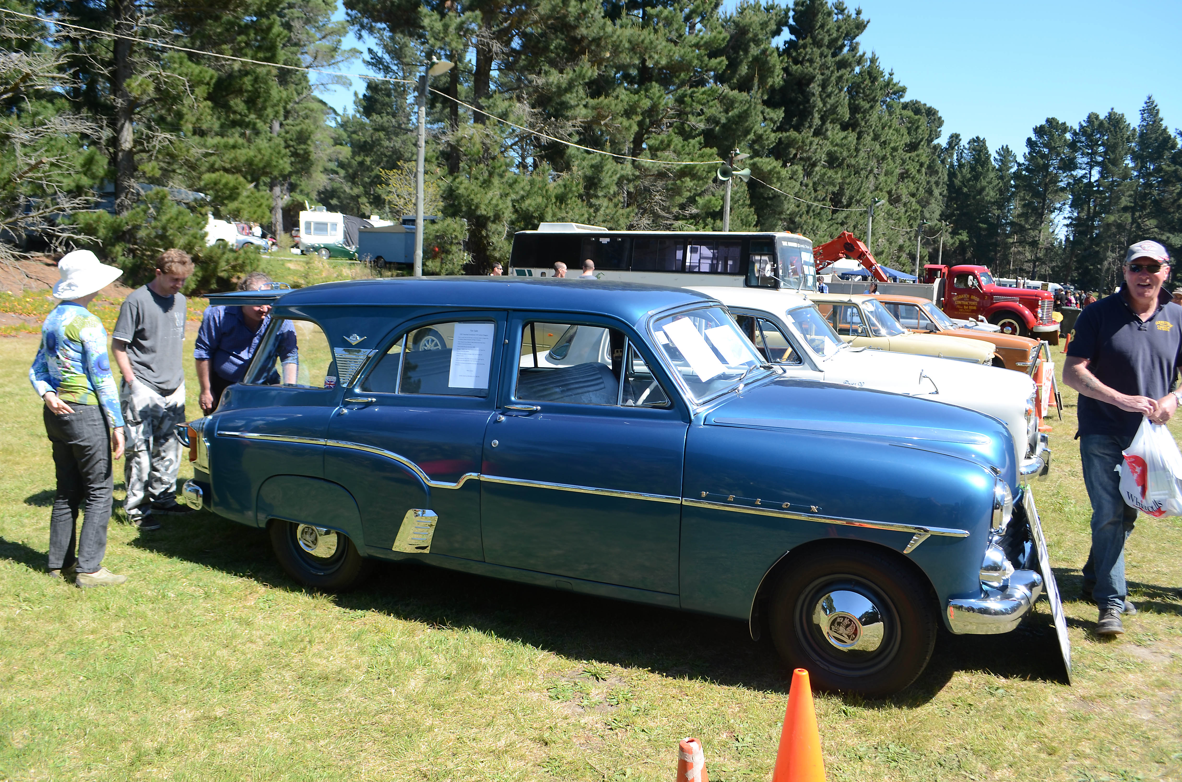 1957 Vauxhall Velox Grosvenor estate car 12 October 2014 McLeans Island Swap Meet Christchurch NZ